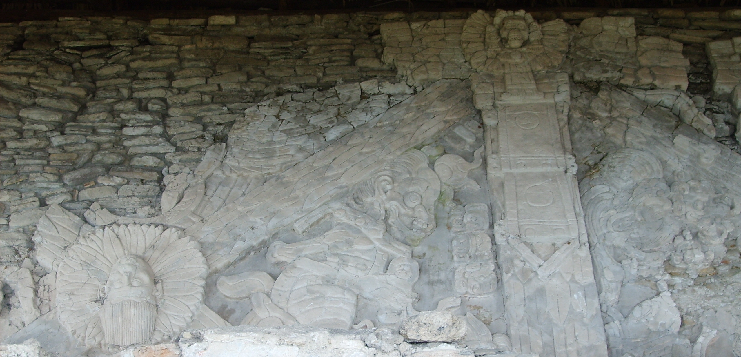 Section of the famous stucco frieze depicting wayob spirit companions at the Maya ruins of Tonina, in Chiapas, Mexico. Photo taken March 2007.